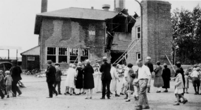 Image of Bath School bombing